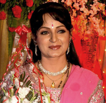 Upasana Singh at her wedding reception